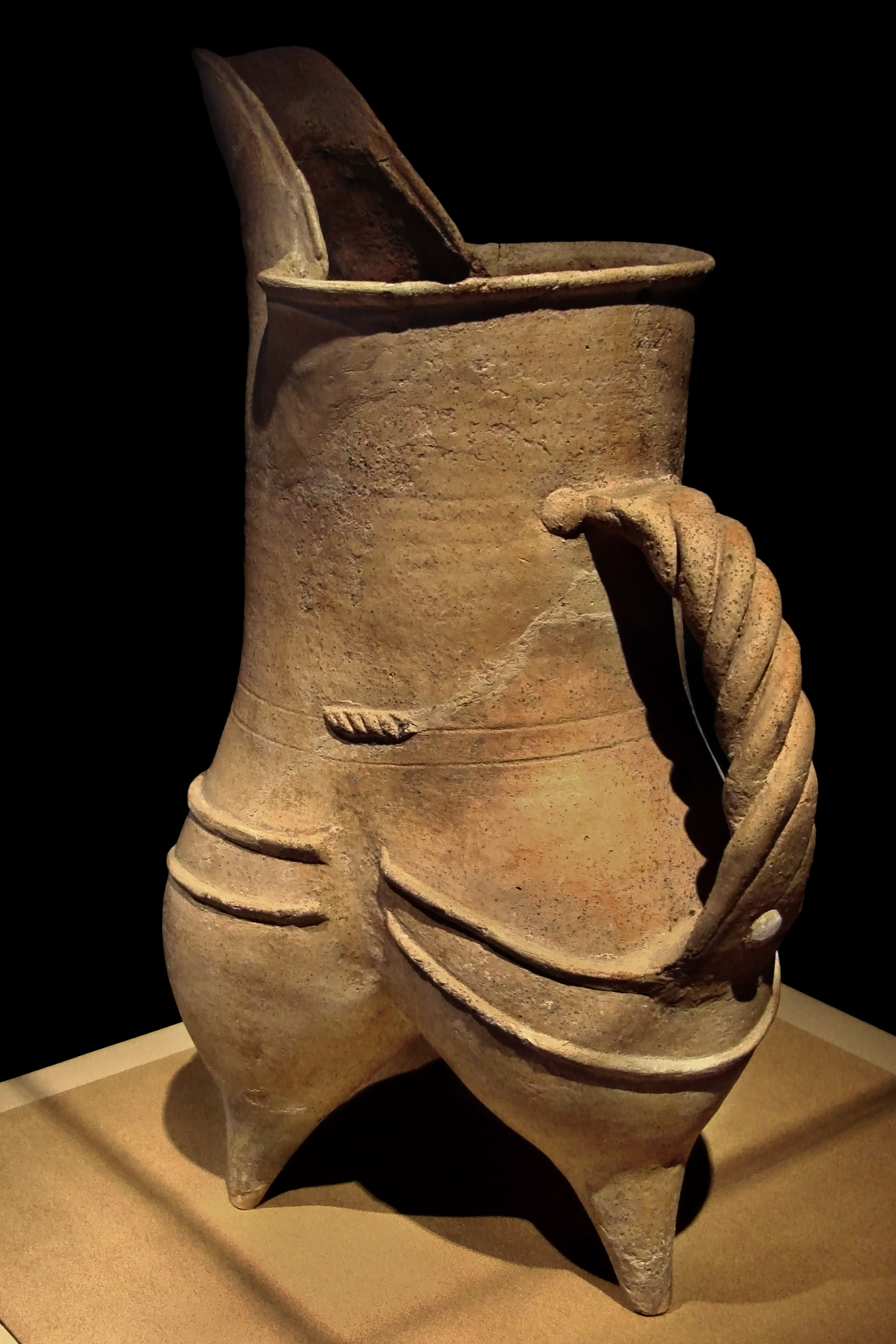 White Pottery Gui (pitcher) Shandong Longshan Culture, late phase of the Dawenkou culture. Late Neolithic Period (ca. 2500 - 2000 B.C.) Excavated at Rizhao, Shandong Province "White pottery" is the name for a type of pottery which features a white body and surface. This pitcher was used for storing and boiling liquid, and its shape indicates that pottery making during the Late Neolithic Period was surprisingly skilled.